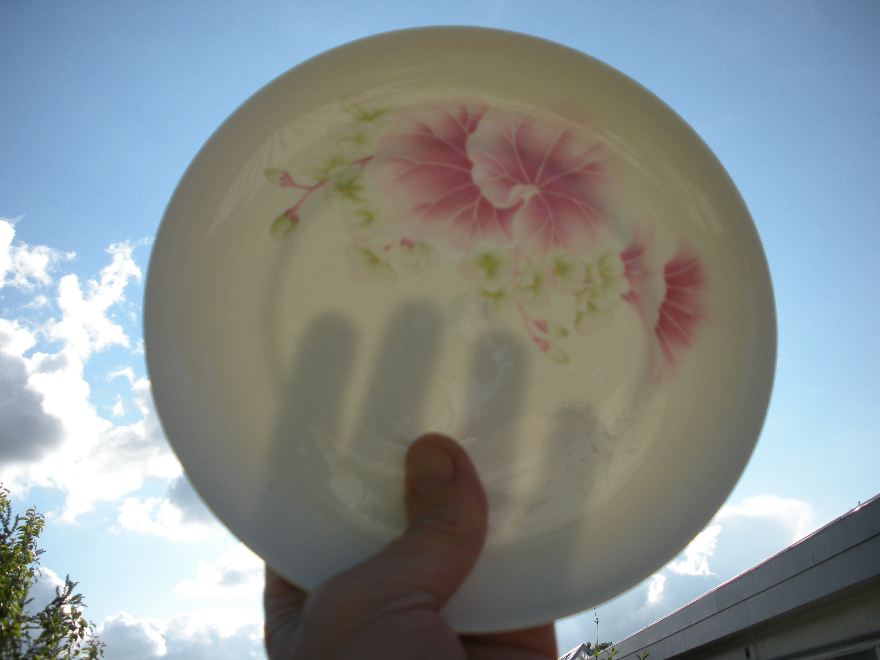 Showing the transperancy of porcelain